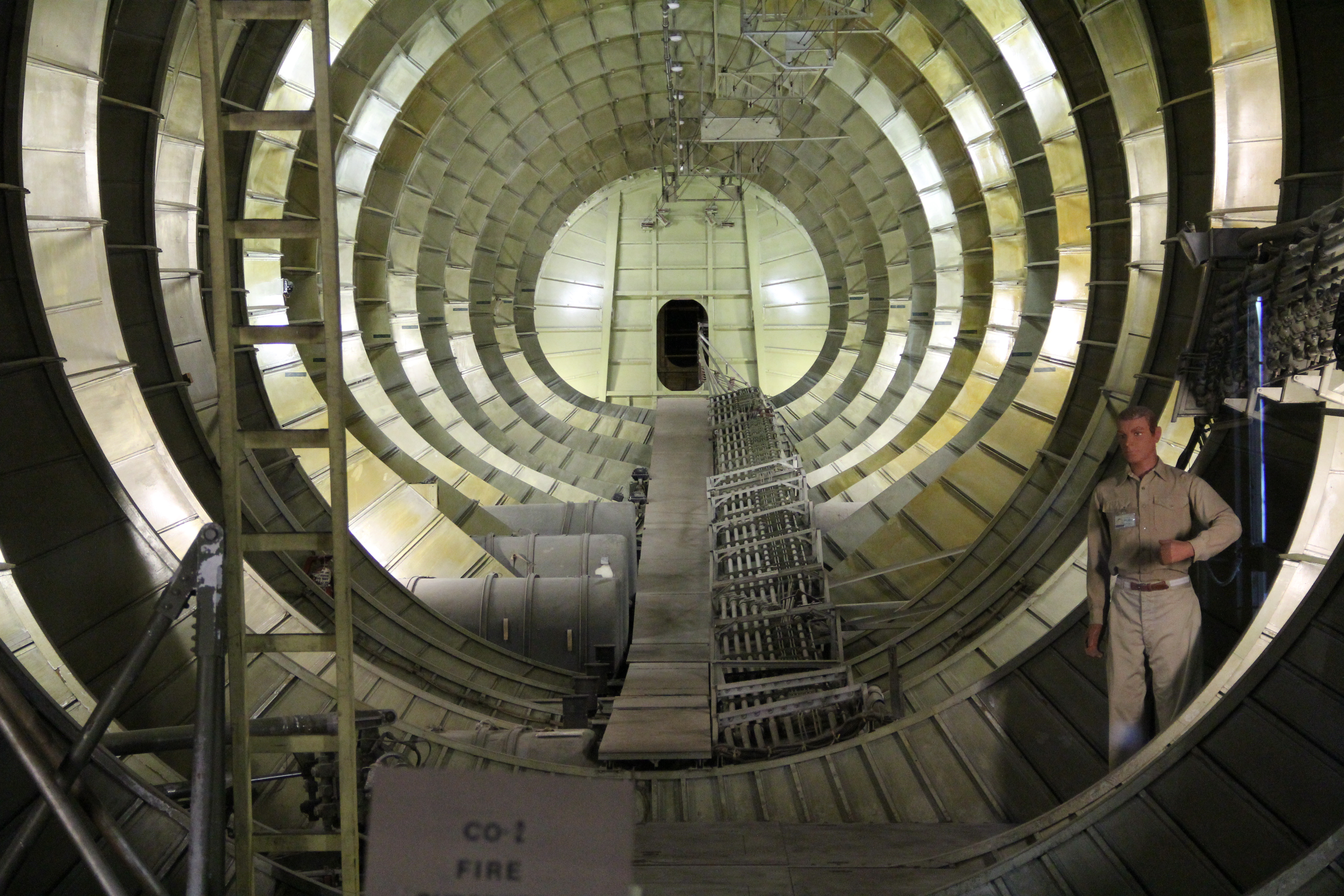 Hughes H-4 Hercules Interior looking aft